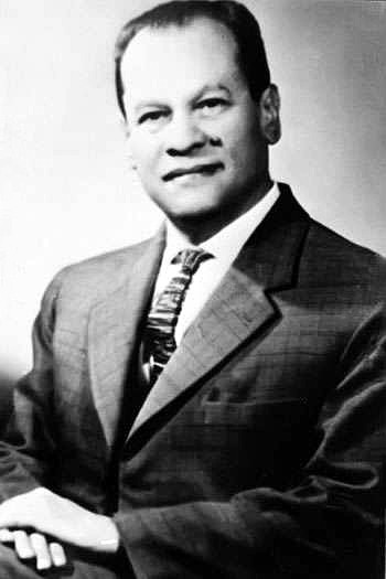 Naguib Mahfouz in 1960